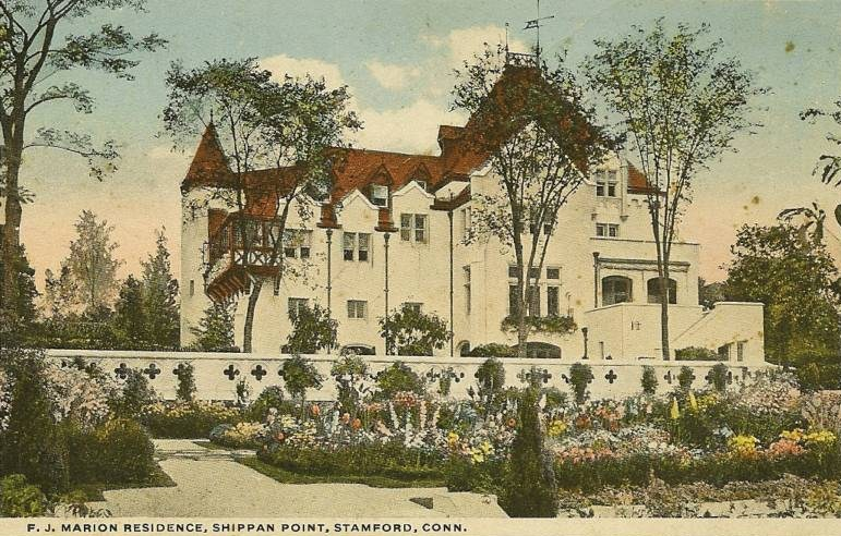 A postcard picture of the F. J. Marion residence in the Shippan Point section of Stamford, Connecticut. The postcard was published in 1920.